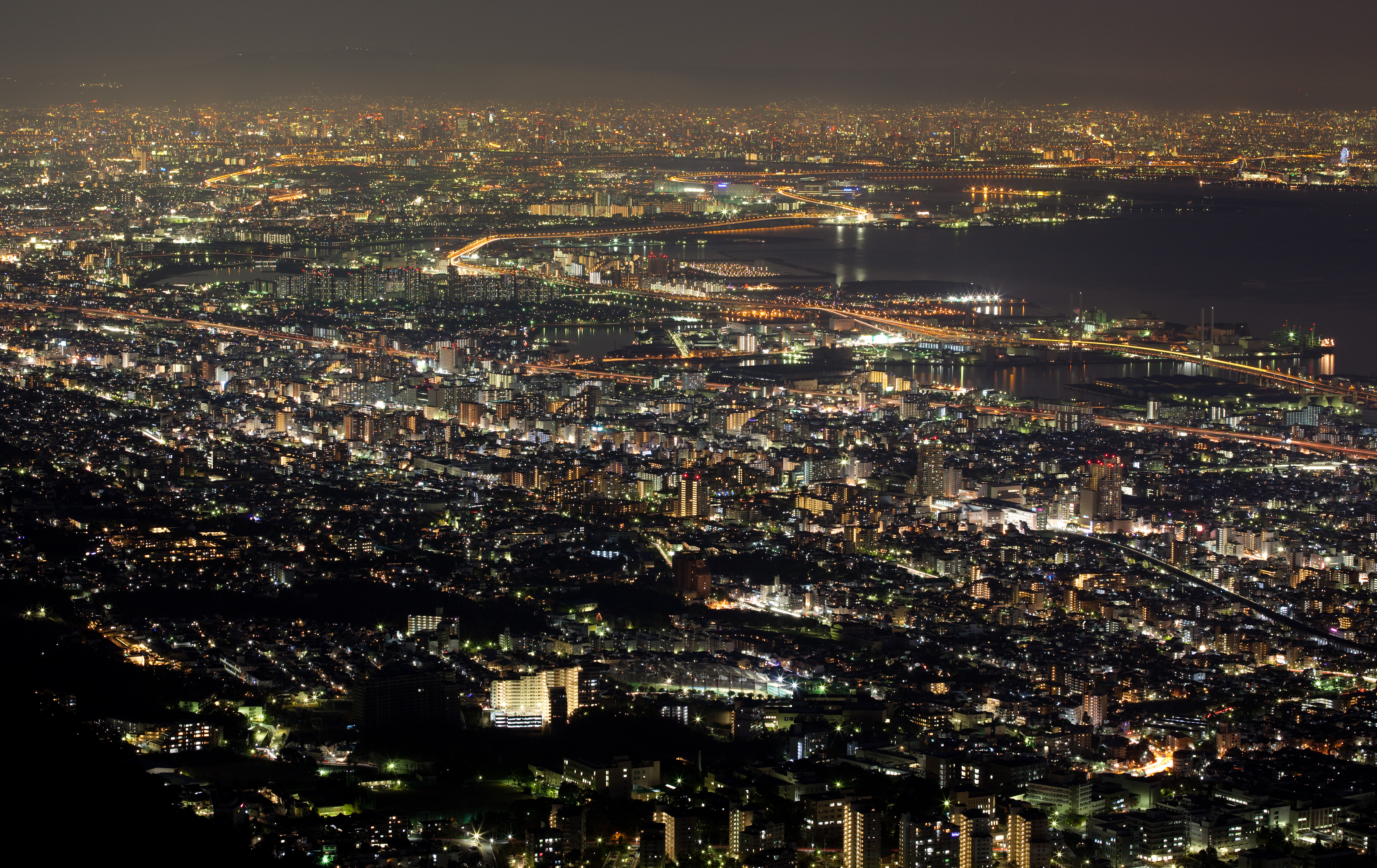 Night view of Osaka bay from Mount Maya